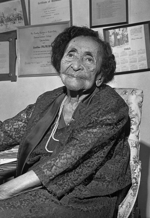 "Born in Jacksonville, the 13th child of a former slave, she attended schools in Florida and New York. An educator and publisher,she established the Clara White Mission in honor of her mother during the Depression in the 1930s. She also ran a prison mission and donated property for community projects, including the first park for black children. In 1967 she began the Eartha M.M. White Nursing Home, which grew into the area's largest employer of blacks.Women's Hall of fame inductee 1986."--neg. sleeve.